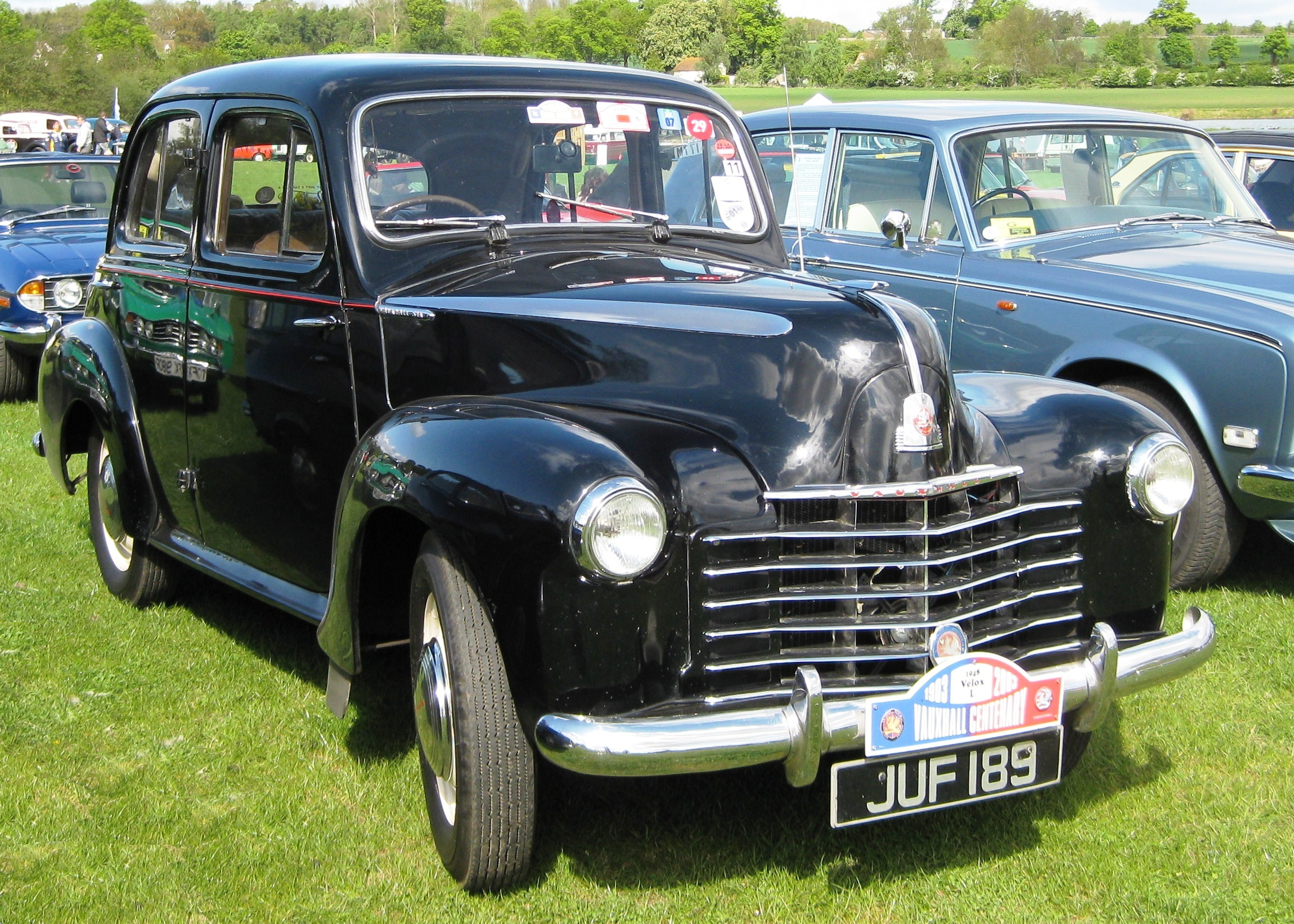 Vauxhall Six / Vauxhall Velox in a field near Knebworth.